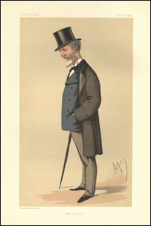 Caricature of Lord William Hay. Caption read "The Director".